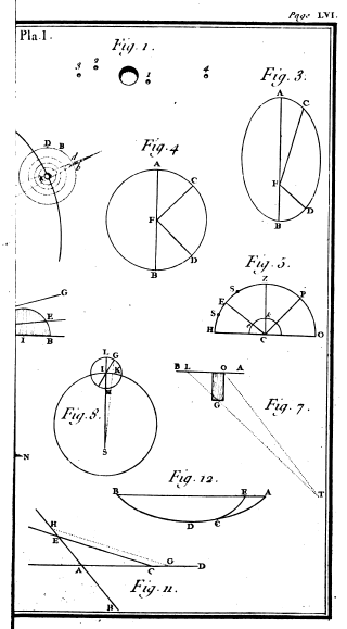 Some figures of the Essai sur la théorie des satellites de Jupiter by Bailly.